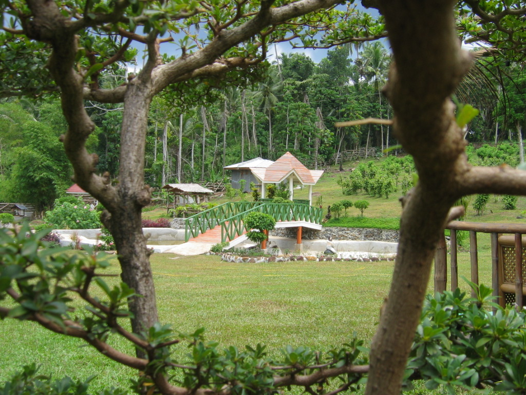 photograph of Farmland Resort, Lanote, Isabela City, Basilan::THe Picture is a Property of DOT Region 9, credits goes to Errold L. Bayona, as this was taken under Project Hola Zamboanga Peninsula Website. Thank You. - DOT